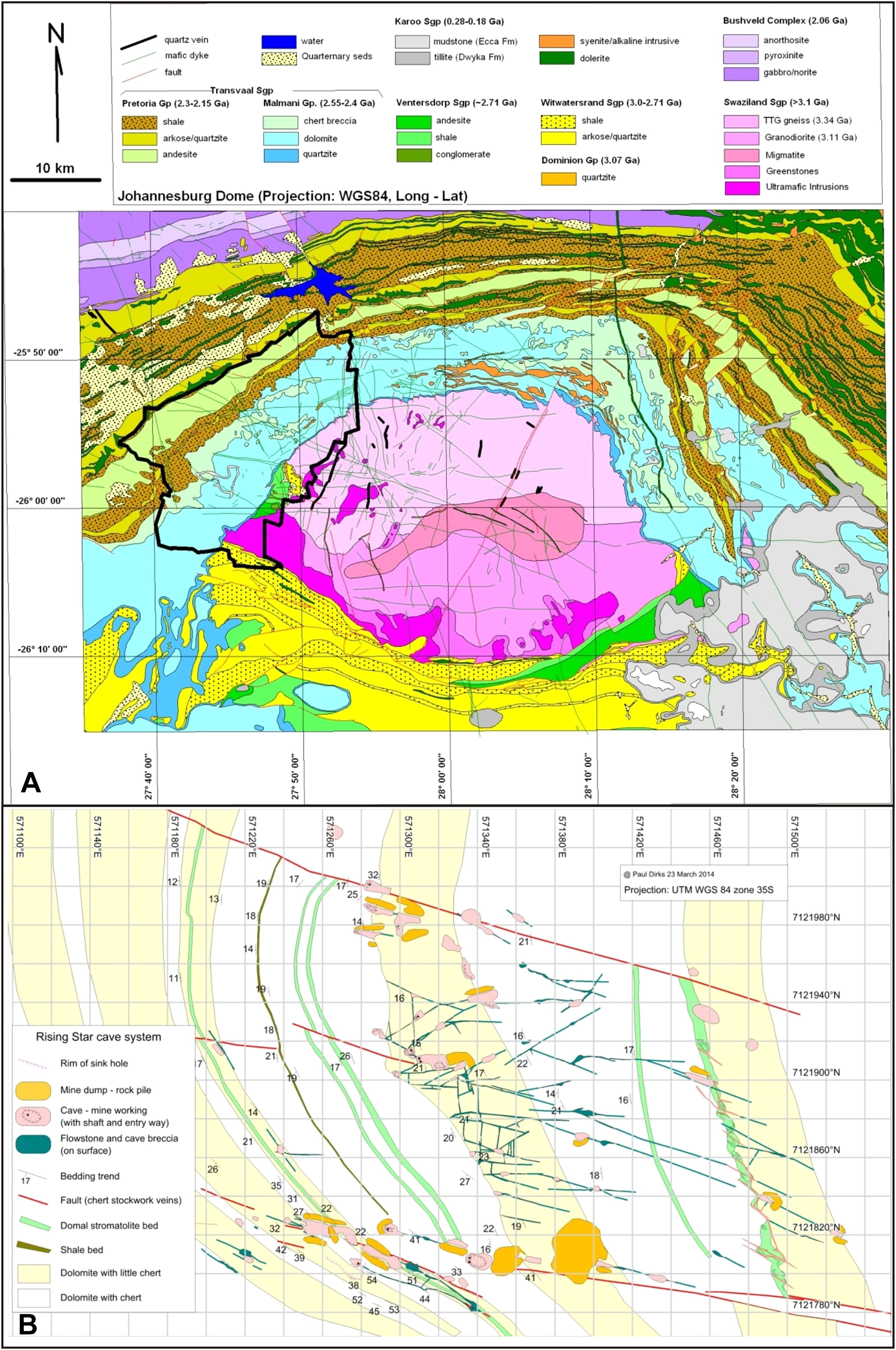 Geological setting of Cradle of Humankind and Rising Star cave system(A) Geology of Johannesburg Dome and surroundings, showing the Cradle of Humankind world heritage site in bold black outline.(B) Surface geology of the immediate surroundings of the Rising Star cave system, showing the fault sets and variable chert content in the dolomite that controlled cave formation. The cave system is confined to a chert-poor stromatolitic dolomite horizon.